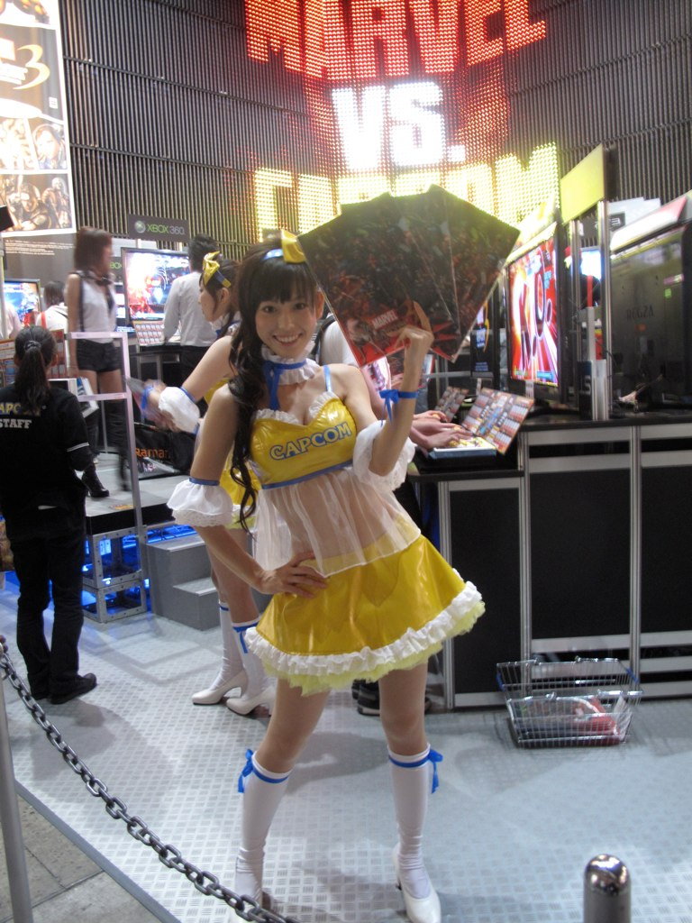 Taken on September 17, 2010 Canon PowerShot G10